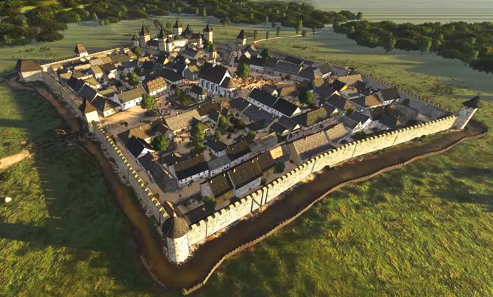 Reconstruction of famous fort of Koszeg (Guns, Kiseg) in 1532.